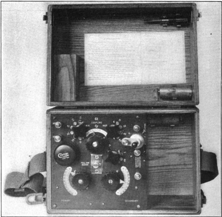 Signal Corps SCR-54A radio set, a crystal radio receiver used by the US Signal Corps during World War I. The cat's whisker detector is the round white device in the upper right area of the panel.